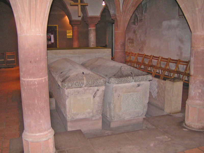 Tombs of St. Eucharius (first bishop of Trier) and Valerius (his subdeacon and successor), St. Matthias Abbey, Trier